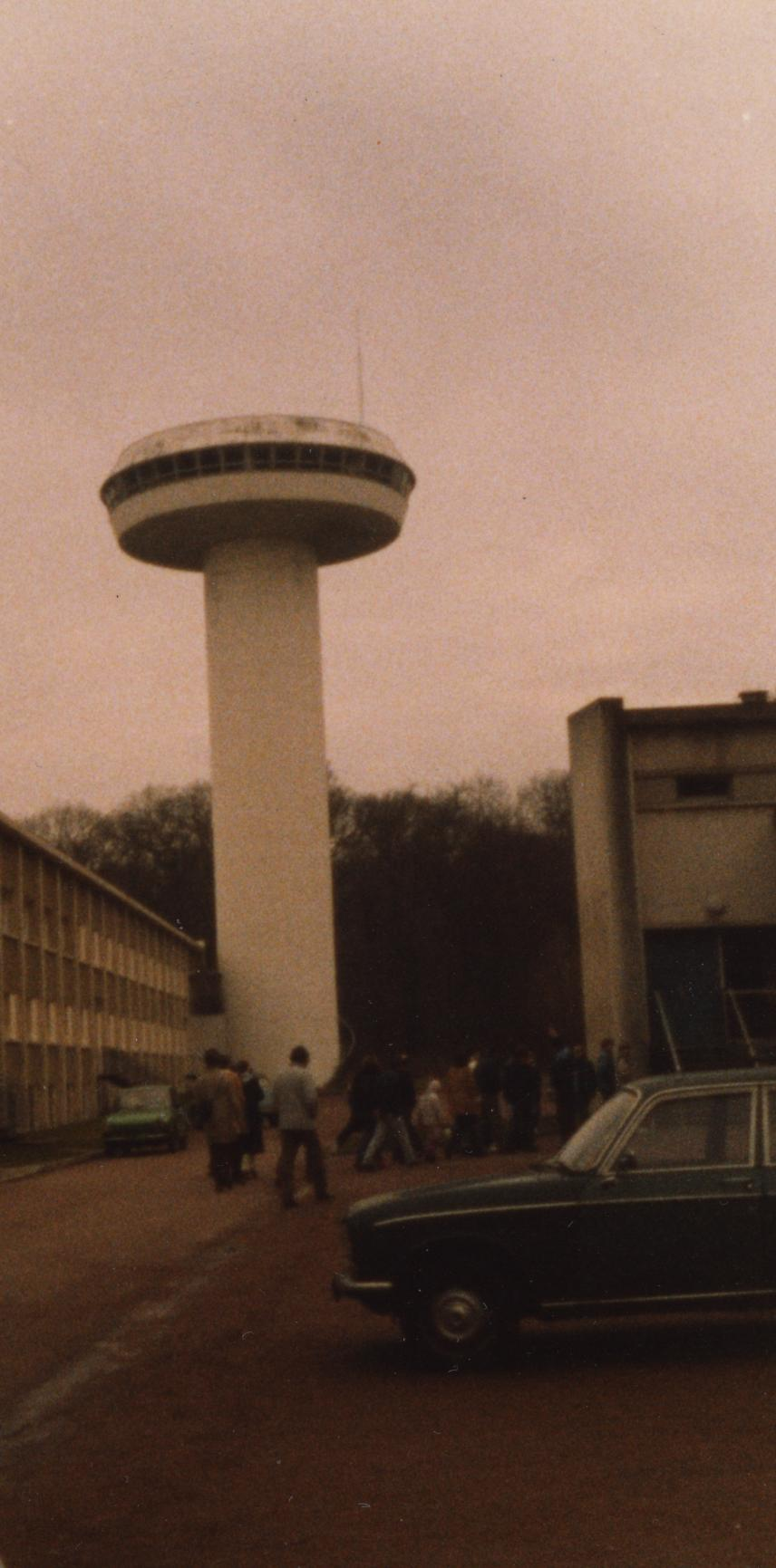 Solar Observatory Tower Meudon is a 36.47 metre tall tower built of reinforced concrete on the area of Meudon Observatory in Meudon, France, which has in its interior a spectrograph for examination of the sun